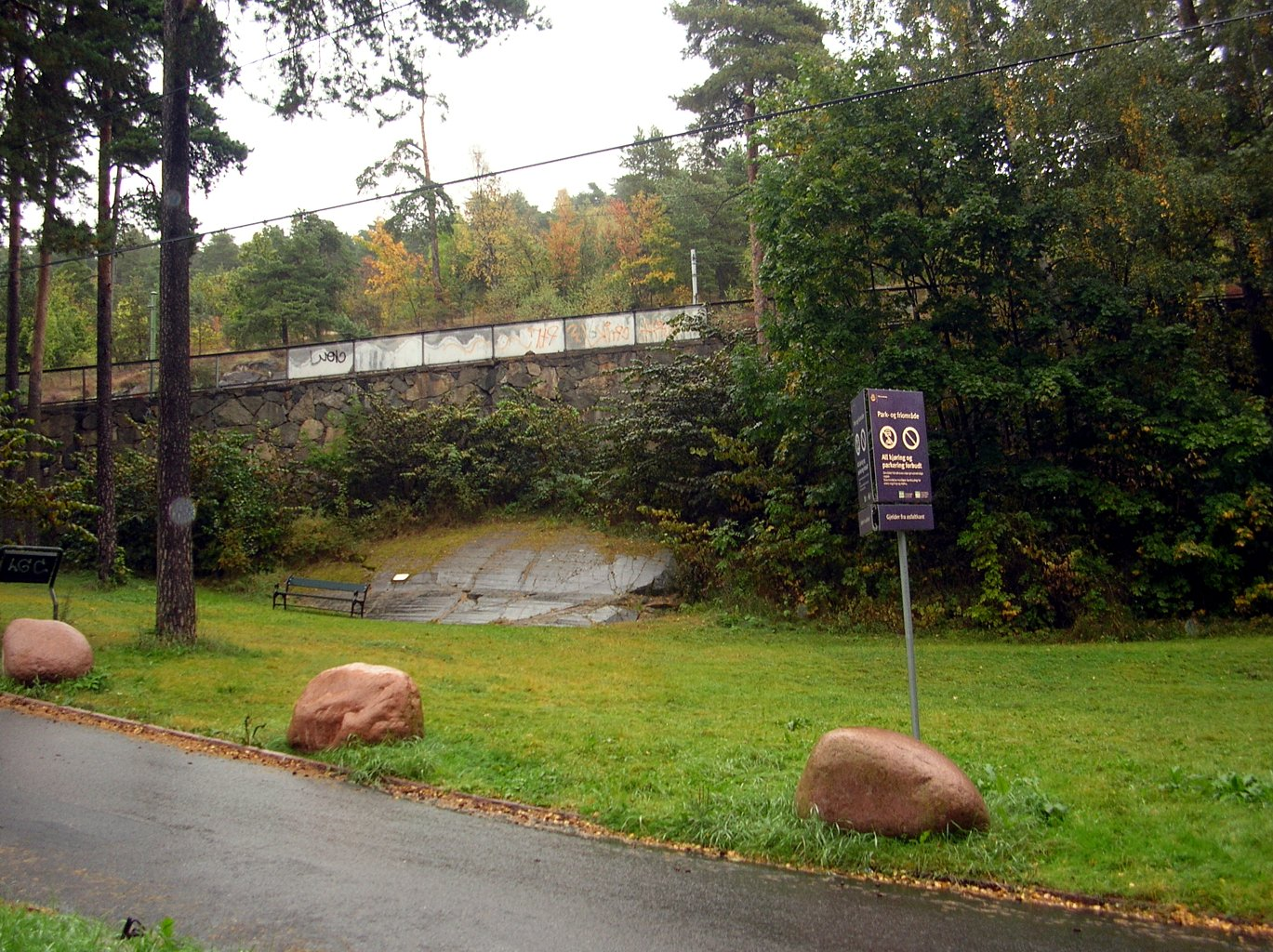 Rock with carvings at Sjømannsskolen in Ekeberg, Oslo (Norway)